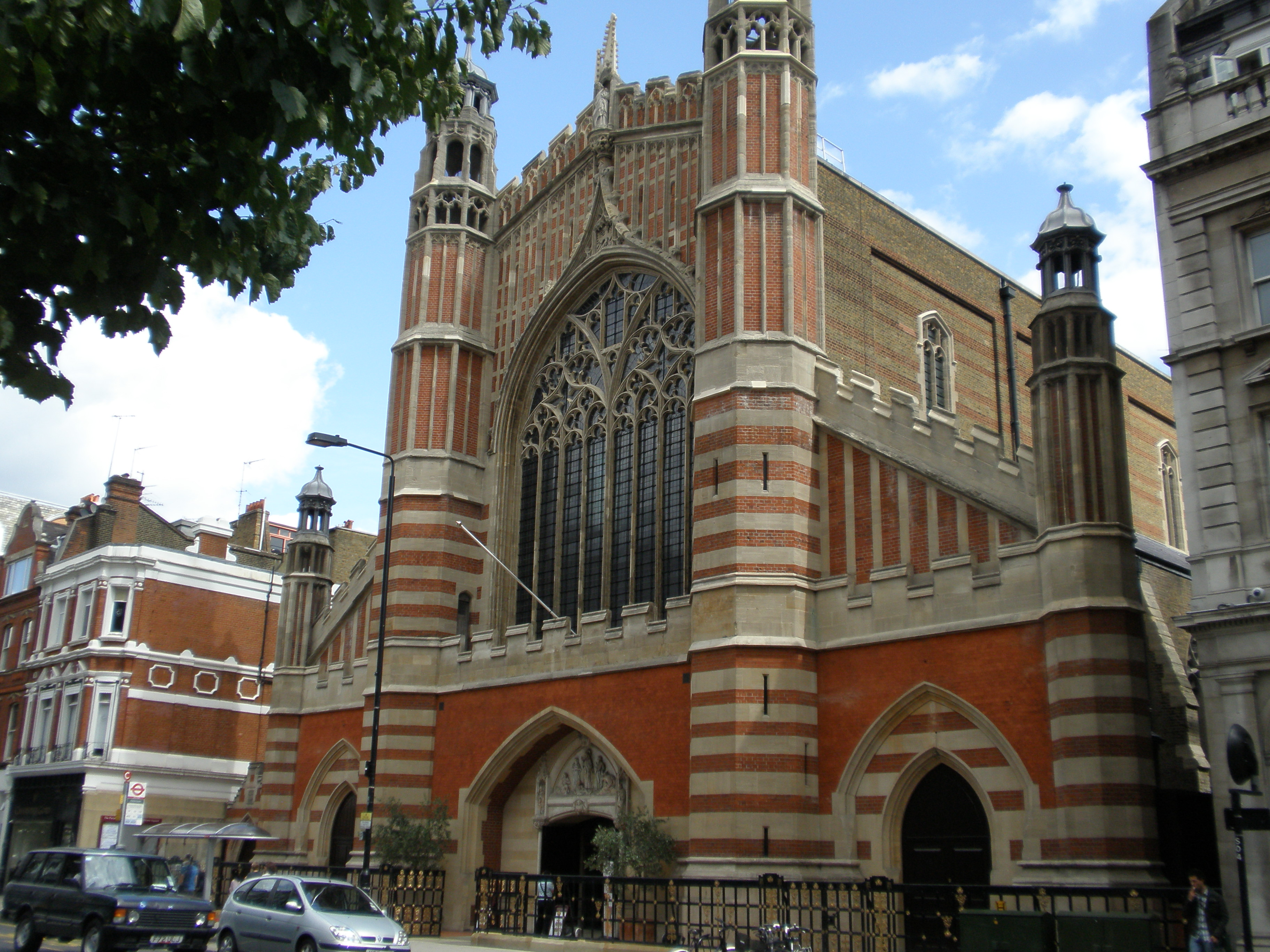 The Church of the Holy and Undivided Trinity with Saint Jude, Upper Chelsea, sometimes known as Holy Trinity Sloane Square